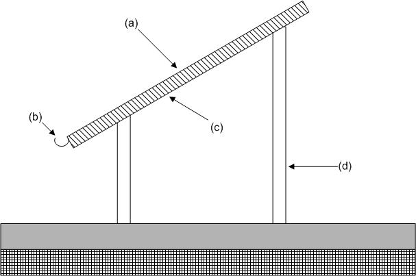 Diagram of a radiative condenser. A device designed to collect dew. (a) radiating/condensing surface, (b) collecting gutter, (c) backing insulation, (d) stand.